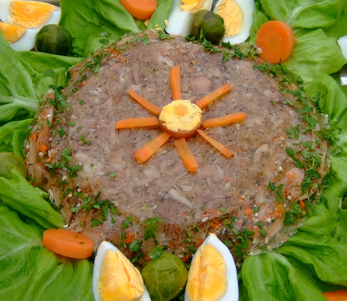 Pihtije on lettuce with eggs, a dish from Serbian cuisine, consisting basically of meat and water. Picture taken at Bogojavljenje (Epiphany) in Vlasotince, south-east Serbia. According to Serbian tradition pihtije are made for this religious Christian feast day.